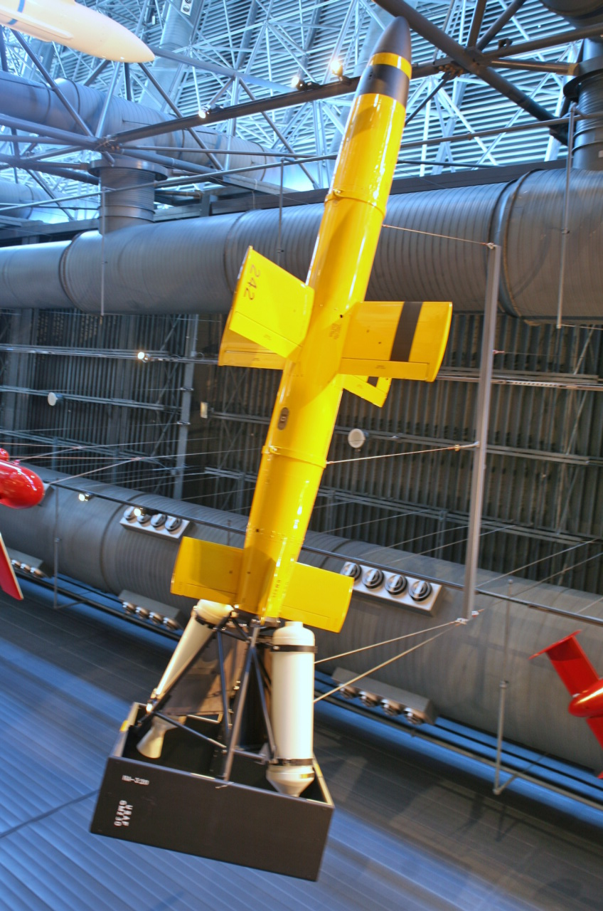 The Lark was an early U.S. Navy surface-to-air liquid propellant rocket-propelled missile built by the Consolidated-Vultee Aircraft Corporation, and was usually launched from the decks of ships with the help of solid propellant boosters. It carried a 100 pound warhead and had a range of about 38 miles. The design of the Lark began in 1944, but it was not developed in time for use in World War II. It was used extensively from 1946-1950 as a test missile, providing valuable experience to U.S. military personnel in the handling and deployment of missiles. Some flights were made at sea. The Lark was also the first U.S. surface-to-air missile ever to intercept a moving air target. Steven F. Udvar-Hazy Center.